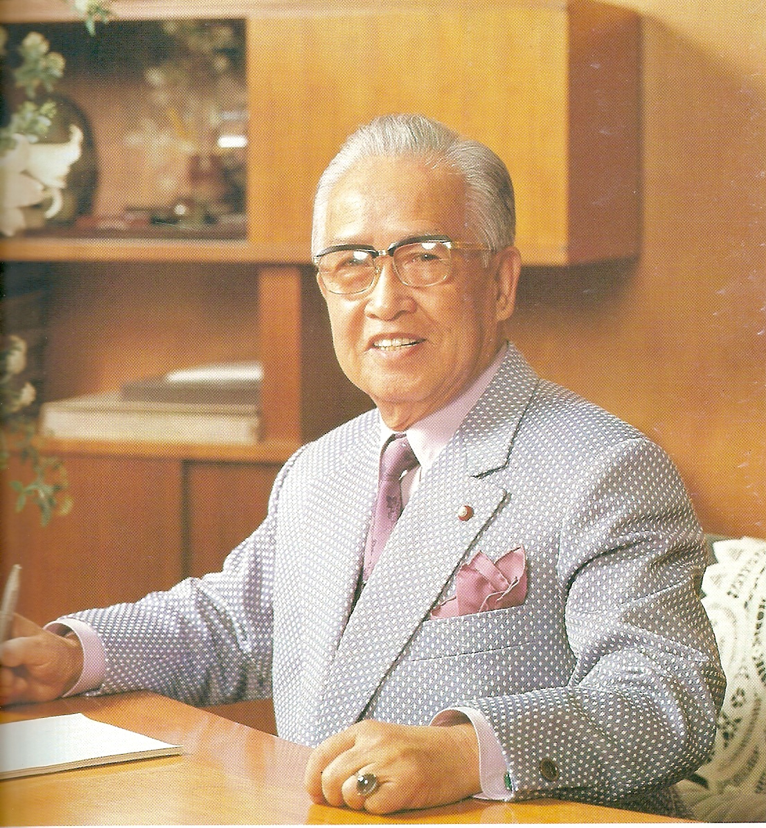 Tokuchika Miki photography, religious leader from Perfect Liberty Church